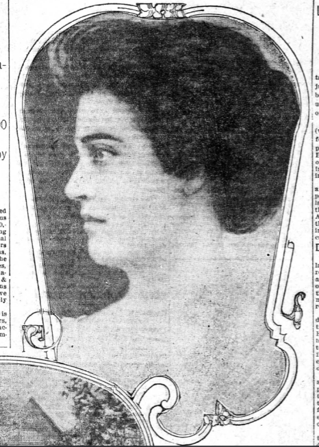 Mamah Borthwick grew up in Oak Park, Illinois where Frank Loyd Wright had his architecture practice. Wright designed a house for her and her husband Edwin Cheney (completed 1904) and in 1909 she and Wright eloped to live in Europe. After their return she obtained a divorce, legally reclaiming her maiden name. She was murdered along with her two children and four workmen by an insane servant in Wright's house, Taliesin, August 15, 1914.